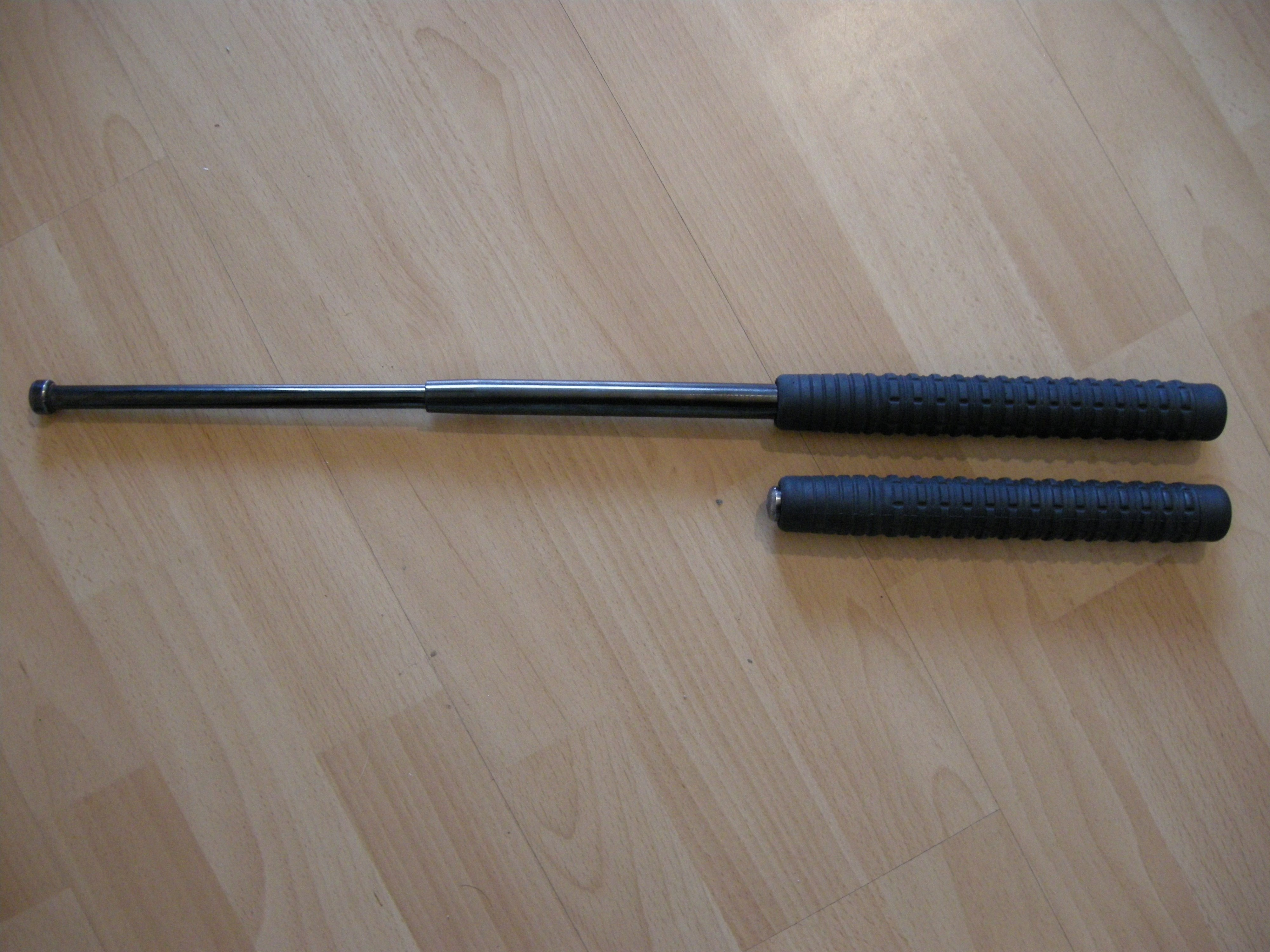 Telescope truncate